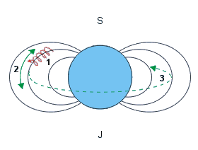 Magnetic confinement on Earth's magnetic field.